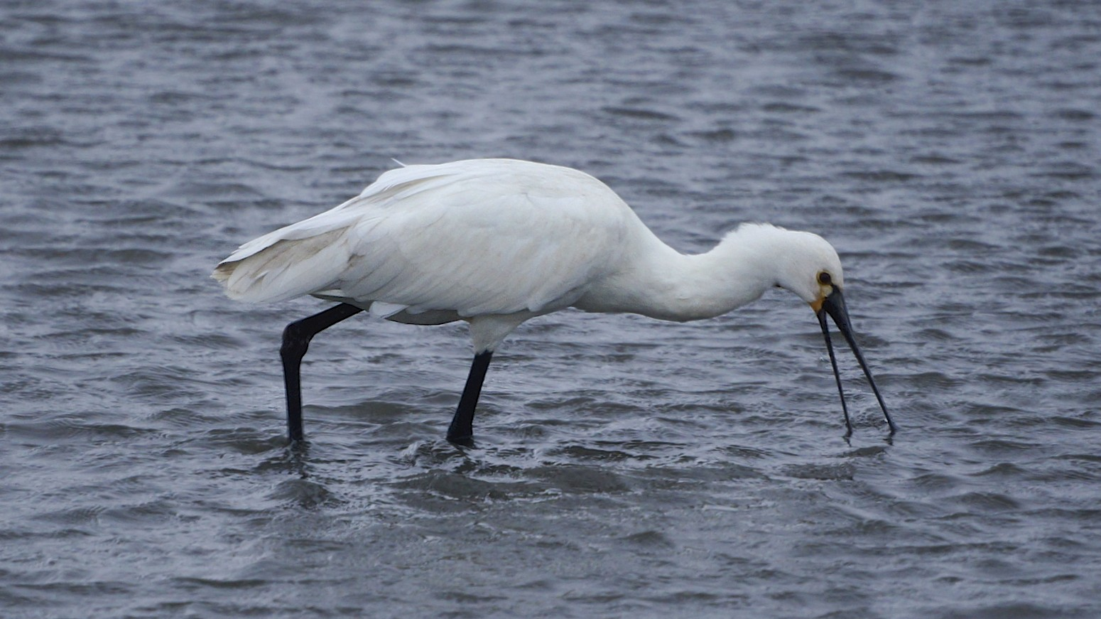 Just one bird feeding there today.